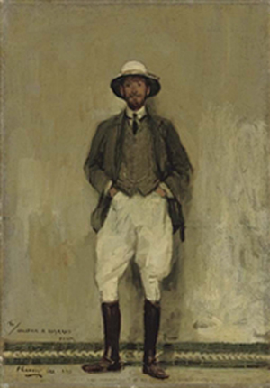 Walter Burton Harris (29 August 1866 – 4 April 1933[1]) was a Morocco expert and special correspondent for The Times